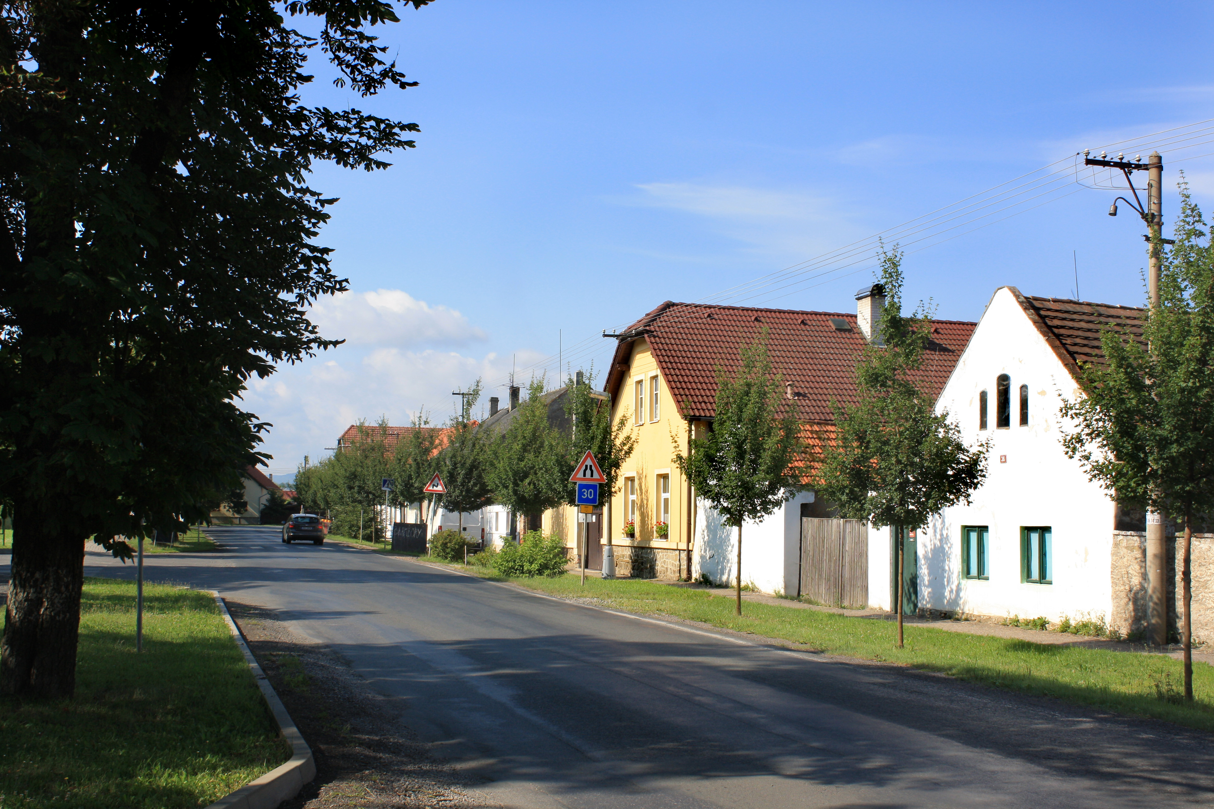 Side street in Libomyšl, Czech Republic